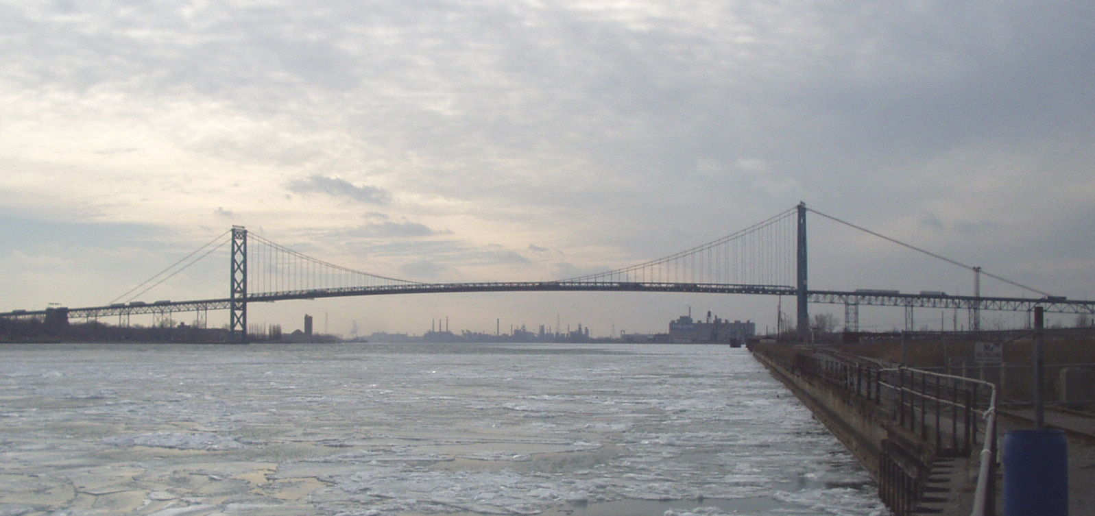 Self taken photo, from the Detroit side of the river